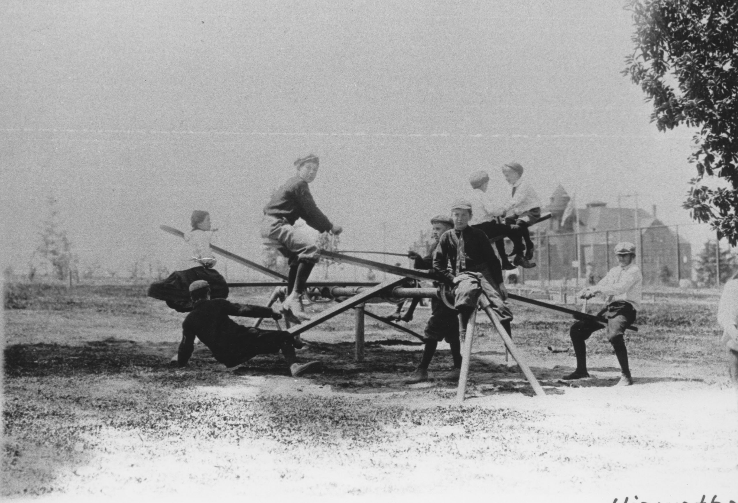 Children at Hiawatha Playfield, West Seattle, Seattle, Washington, 1912. The building in the background is the old West Seattle Central School, which came down due to damage in the 1949 earthquake. Item 29278, Don Sherwood Parks History Collection (Record Series 5801-01), Seattle Municipal Archives.